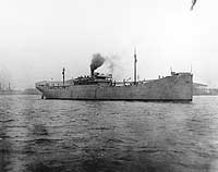 USS William N. Page was a ship commissioned in 1918 in honor of William N. Page, a civil engineer who was cofounder of the Virginian Railway. It served the US Navy and merchant marine until 1947. Vaoverland 14:45, 11 Nov 2004 (UTC)